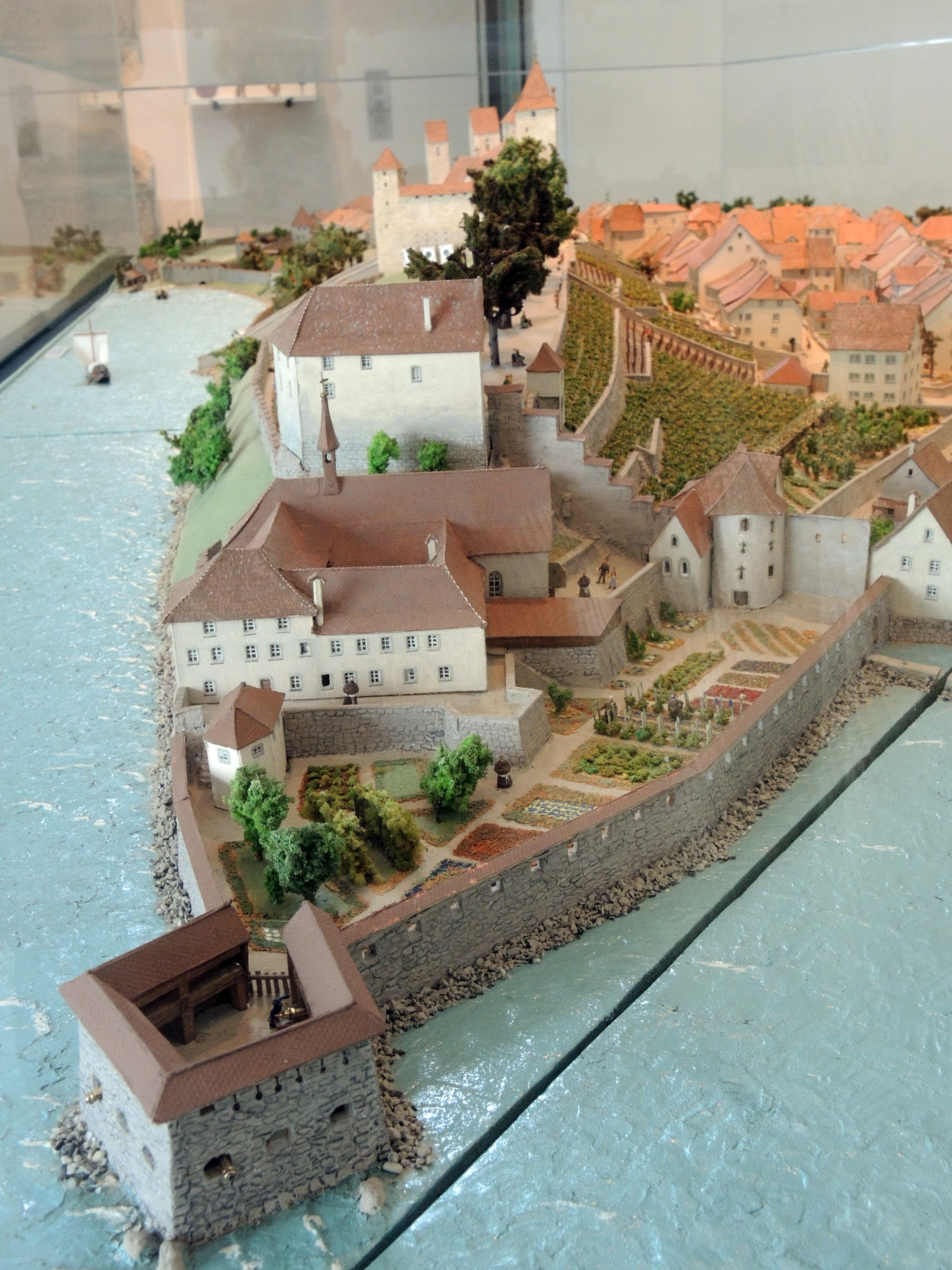 Scale model of the city around 1800 AD, collection of the Stadtmuseum) in Rapperswil (Switzerland) : Focus on the Altstadt around Endingerhorn fortification and Lindenhof hill.